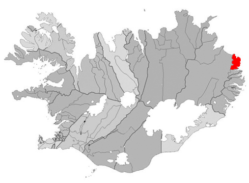 Based on Municipalities of Iceland.png.